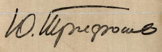 Signature of Yury Trifonov